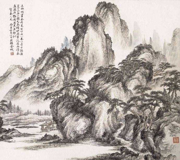 金城癸丑年山水